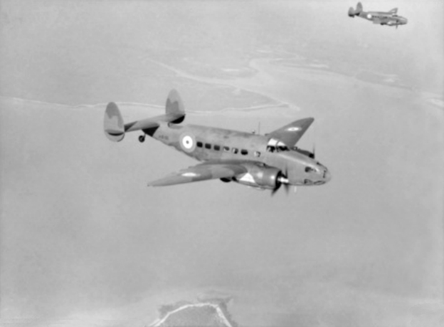 Two RAAF Lockheed Hudson Mk.I aircraft (front: s/n A16-66) from No. 13 Squadron RAAF in flight. On 28 and 29 November 1941, A16-66 had been involved with three other Hudsons from No. 13 Squadron RAAF in the fruitless search for survivors of the sinking of the HMAS Sydney. Each Hudson flew from dawn until dusk in parallel searches operating from Broome, Port Hedland and Carnarvon in Western Australia, but found nothing. 13 Squadron moved from Darwin to Ambon on 7 December 1941 to provide air support to the Dutch forces stationed there. Later, on 26 January 1942, A16-66 and two other Hudsons (A16-125 and -71) were destroyed on the ground when four Japanese A6M2 Zeros from the 3rd Kokatai that strafed Halong naval base on Ambon Island.